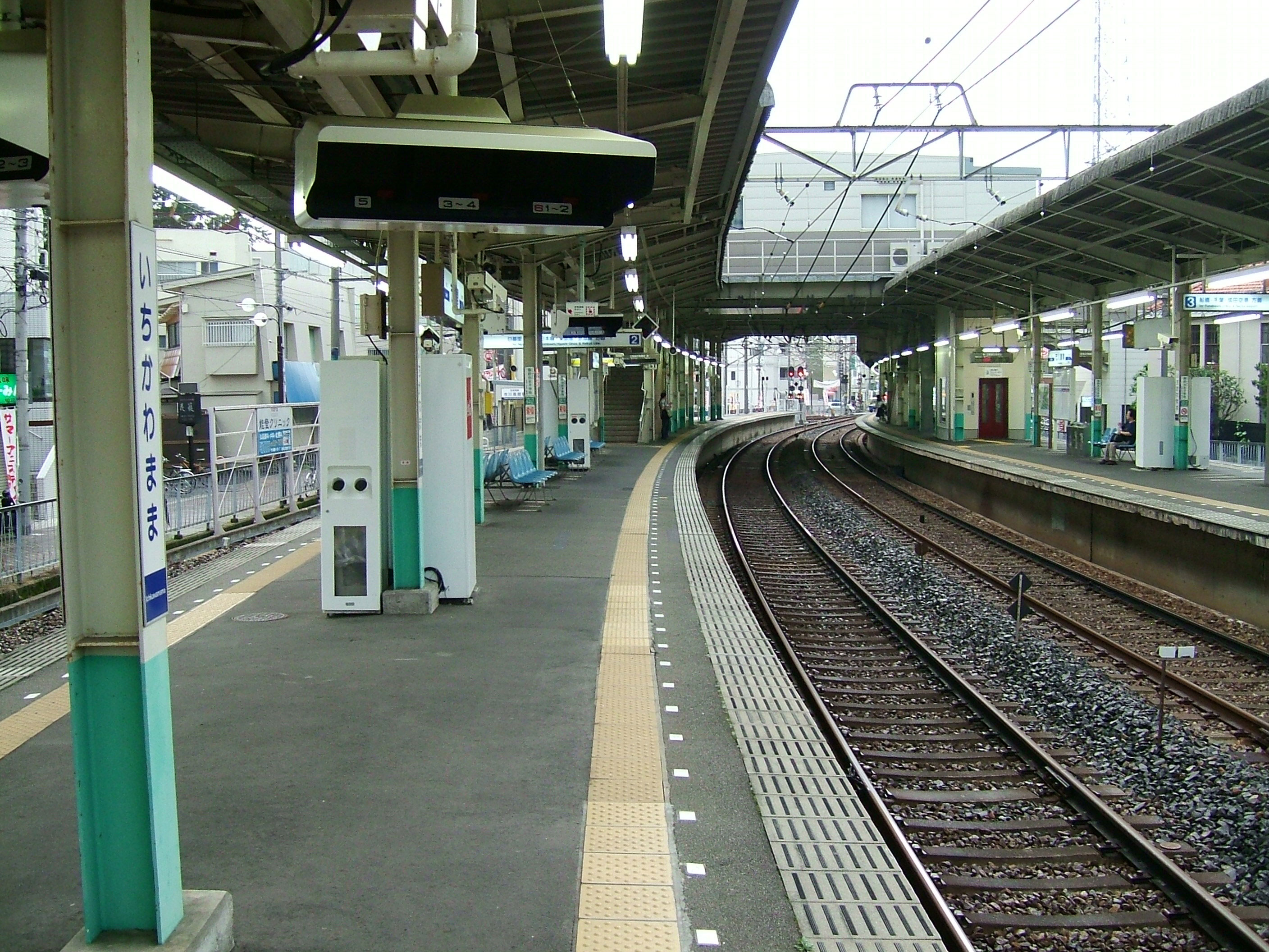 The platforms at Ichikawamama Station on the Keisei Main Line in Ichikawa city, Chiba prefecture, Japan